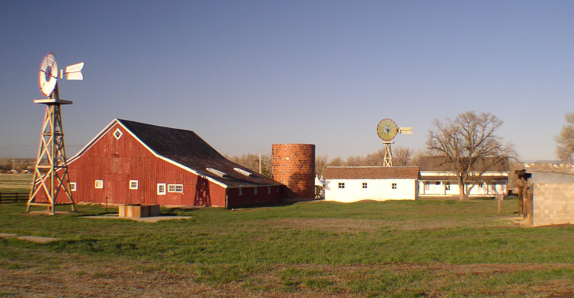 17 Mile House is a heritage site near Parker, Colorado, it was a way station on a main wagon trail into Denver during Colorado's first gold rush. After the railroad reached Denver, the wagon trail fell into disuse and this photo shows the farm buildings added after 17 Mile House converted into a farm.